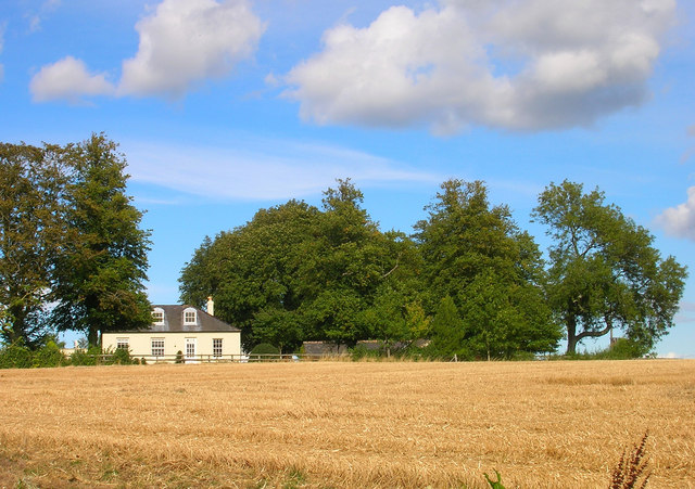 Telegraph House, Telegraph Hill. Built as part of a chain of semaphore relaying stations from the Admiralty to Portsmouth Docks in 1823. This one lying between Portsdown Hill and Beacon Hill near East Harting. The exposed position of the houses caused at least two deaths both of whom are said to haunt the house.